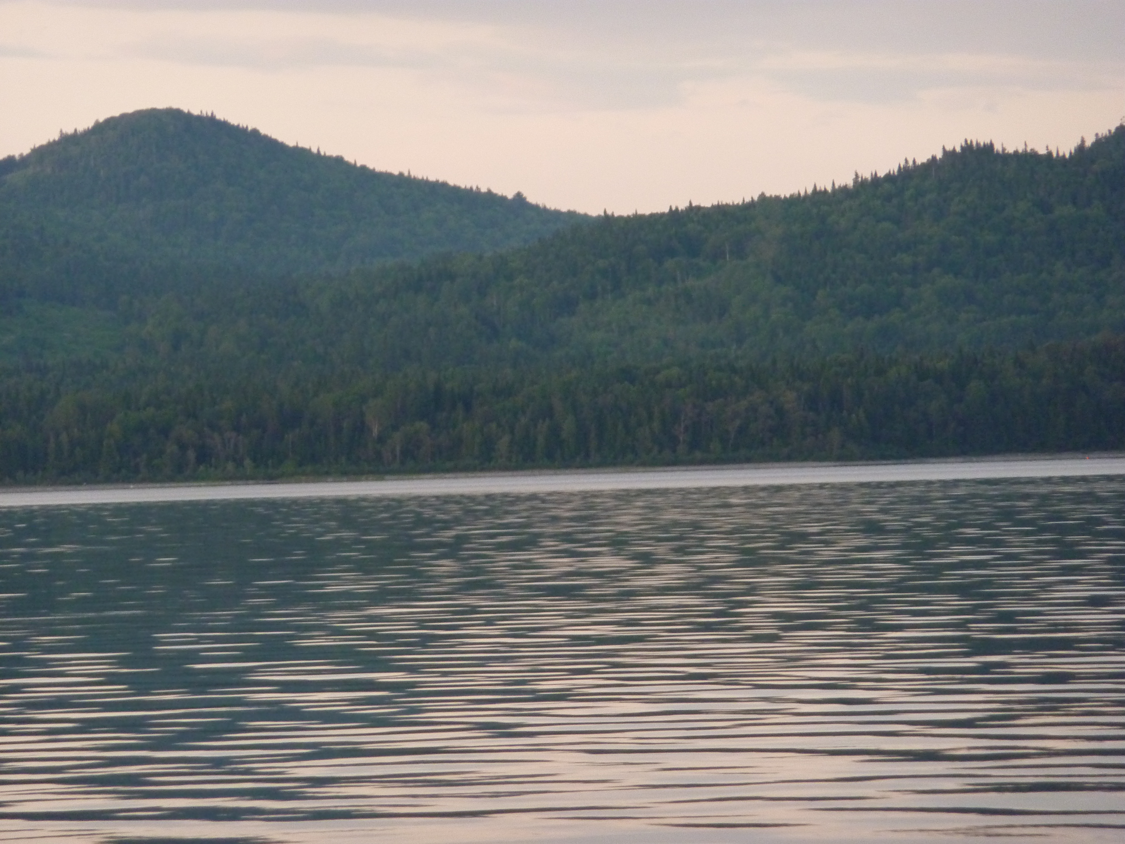 North bank of Matapédia Lake